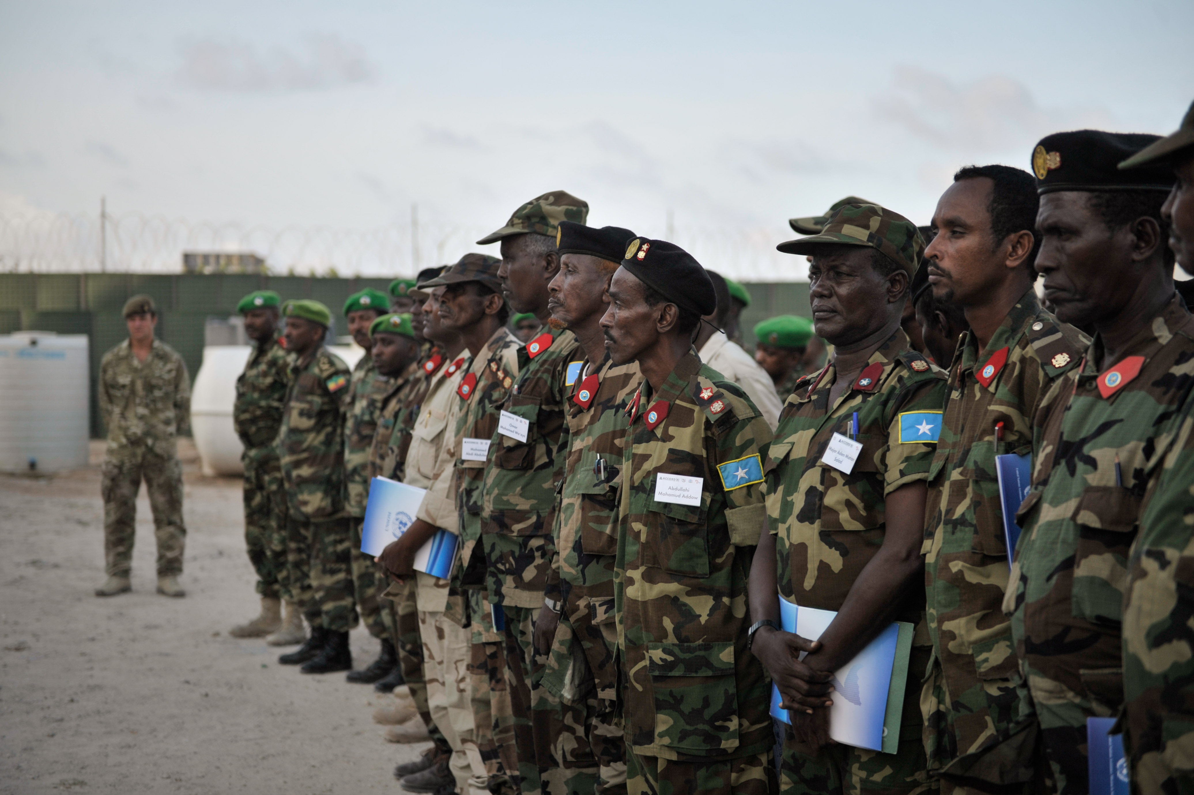 The United Nations Assistance Mission for Somalia (UNSOM) has today concluded a training of trainers' course for African Union and Somali National Army officers on human rights. The trainees, who are already instructors in their respective military sectors, have been charged with sharing the knowledge acquired during the one week training course with their colleagues. AMISOM Photo / Tobin Jones